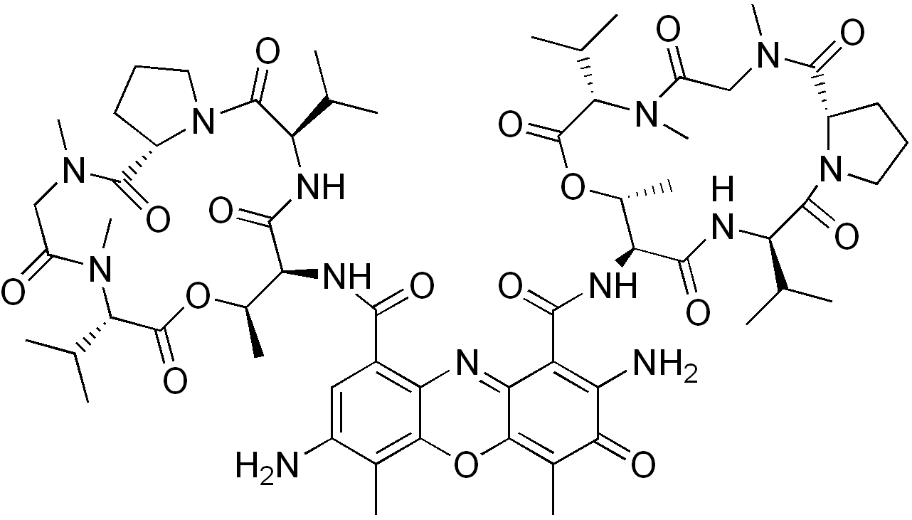 chemical structure of 7-aminoactinomycin D